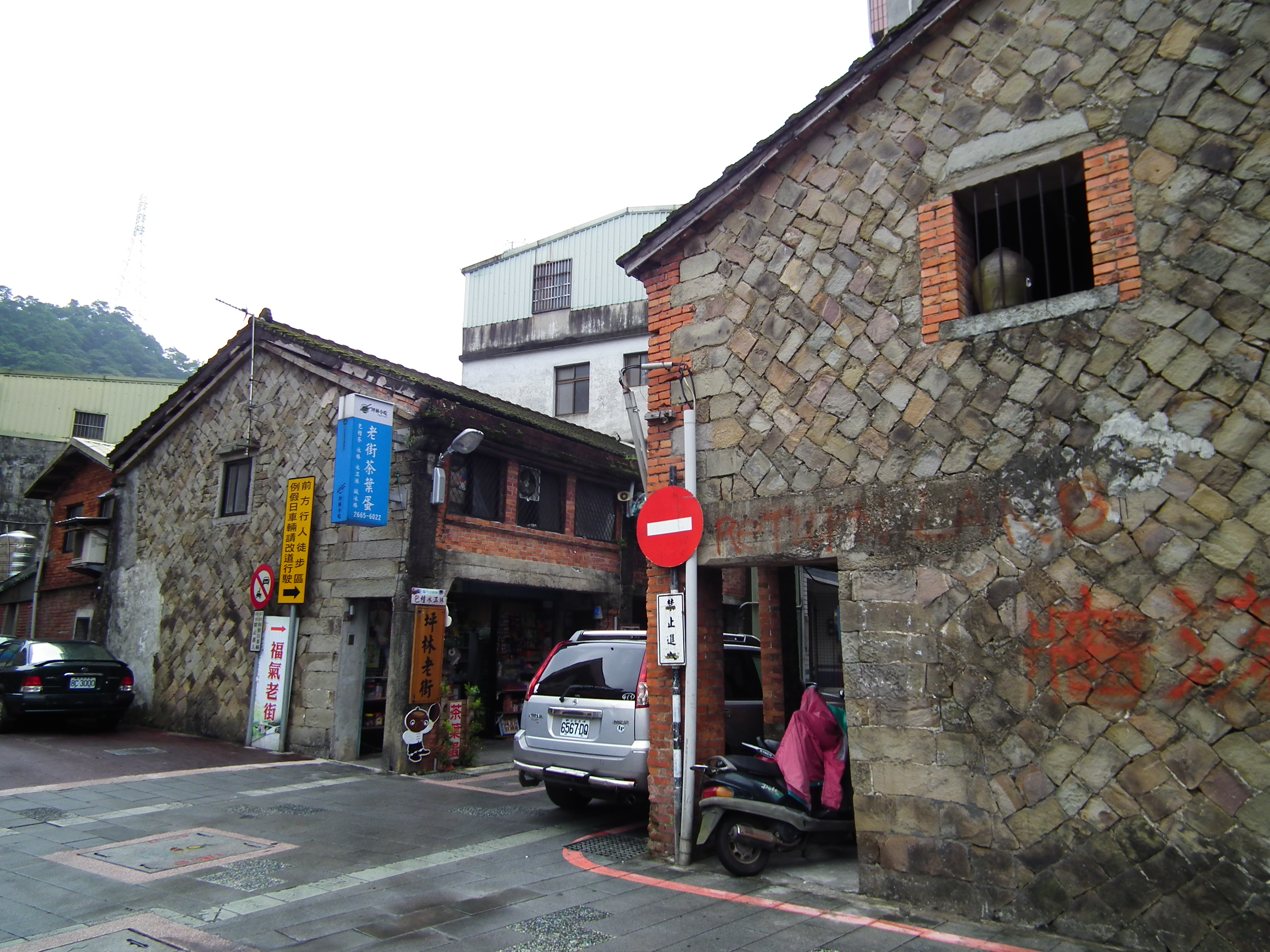 Pinglin Old Street 坪林老街